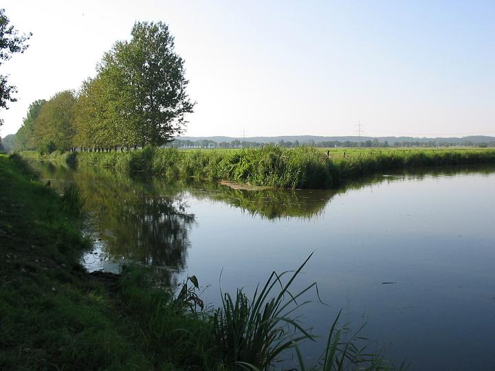 Mouth of the river Nieplitz into the river Nuthe (Nuthe in the foreground) nearby Jütchendorf. The village Jütchendorf is a part of the town Ludwigsfelde in the district Teltow-Fläming, state Brandenburg, Germany. The village is situated in the Nature park Nuthe-Nieplitz.